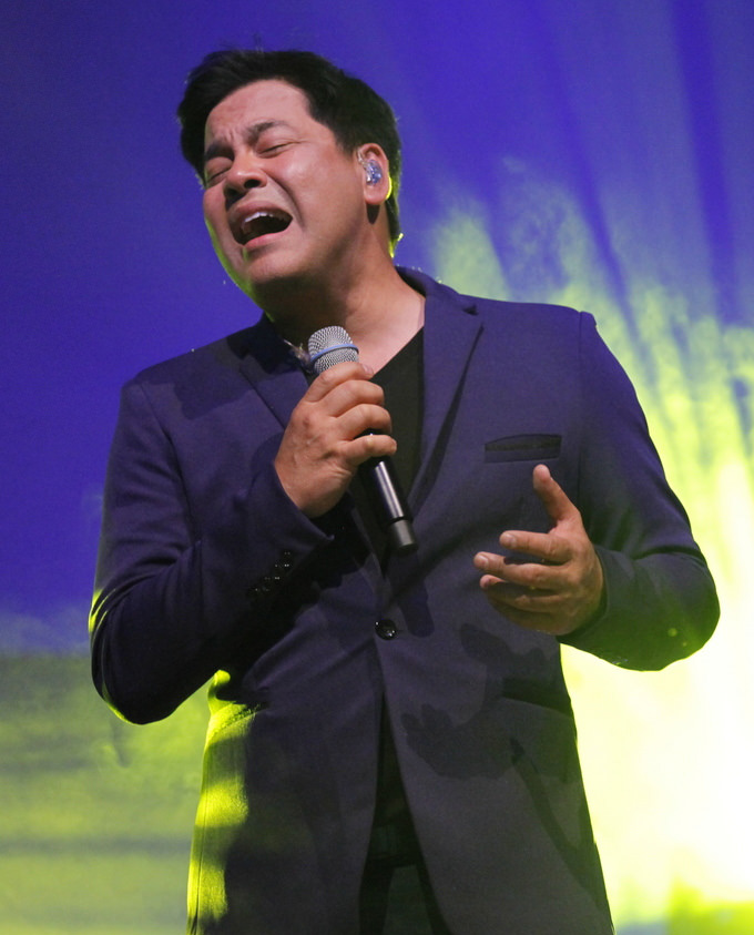 Martin Nievera performing during the TFC Live Presents at the Sheraton Doha Resort & Convention Hotel in Doha, Qatar on April 18, 2015